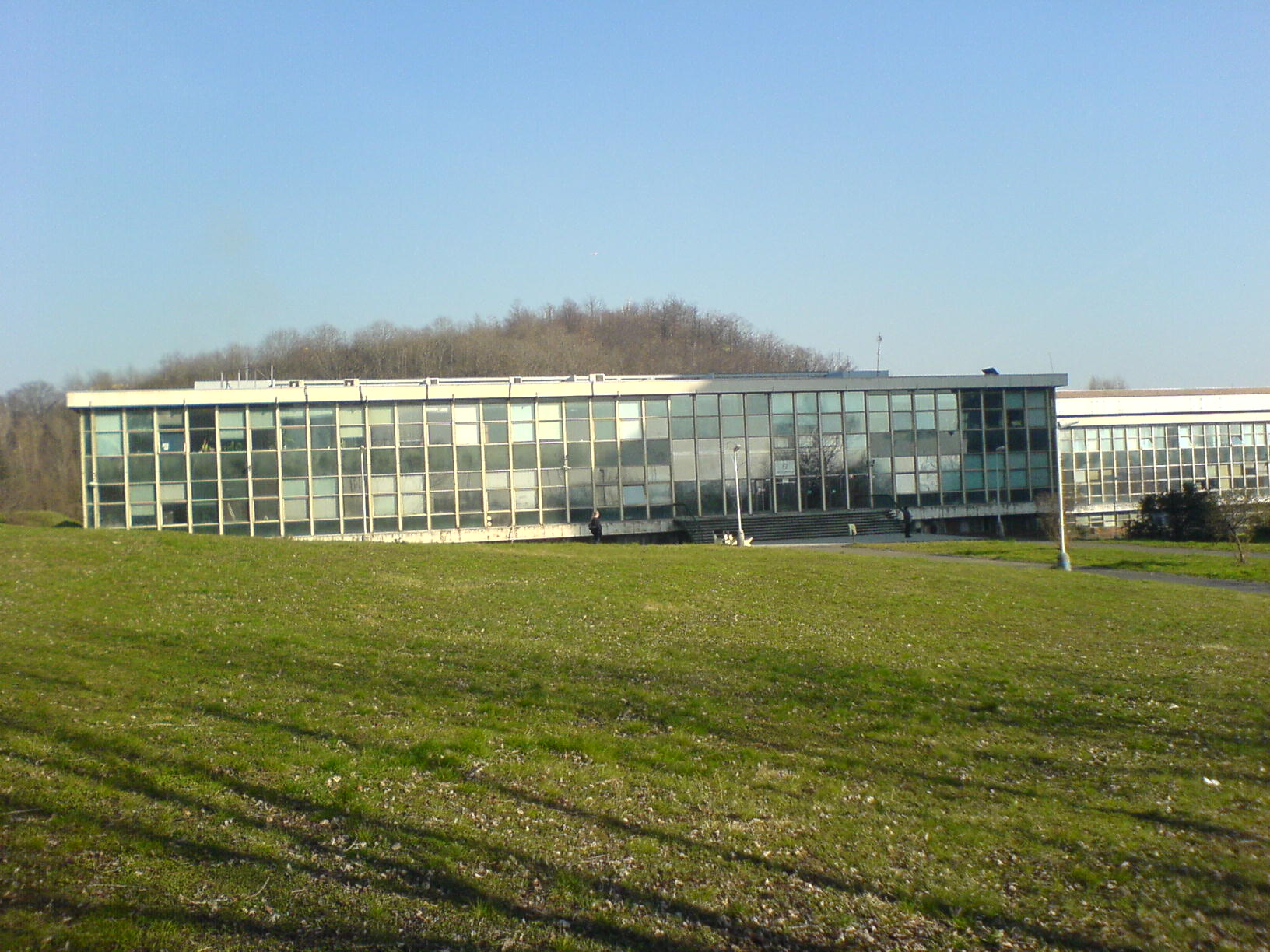 Building "V" of Faculty of Mathematics and Physics of Charles University in Prague